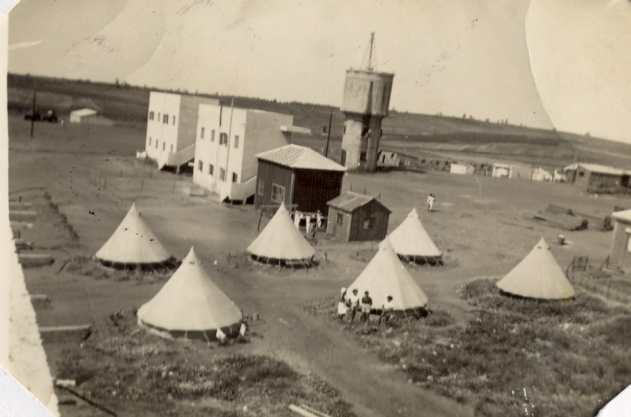 Settlements in Israel